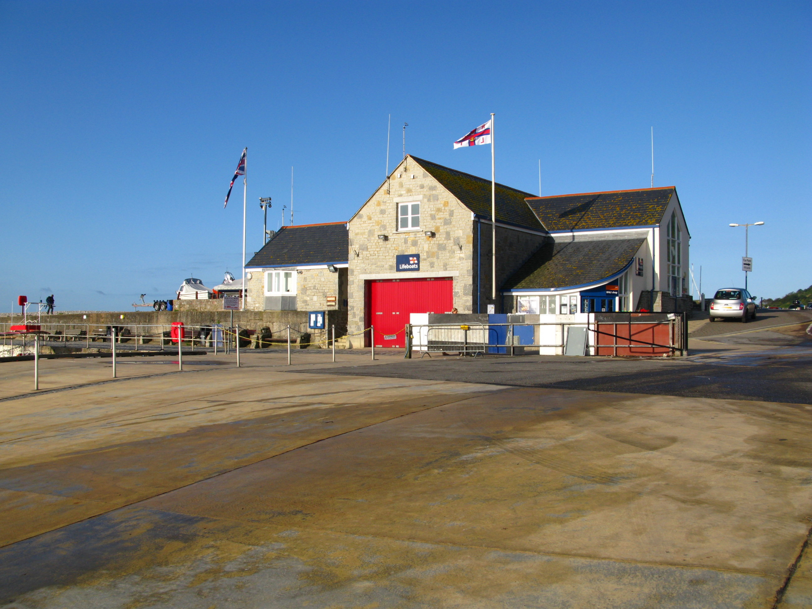 Harbourmaster's Office, The Cobb, in Lyme Regis on the coast of the English Channel near the western border of Dorset / England / European Union. Morning mood, looking towards the west.